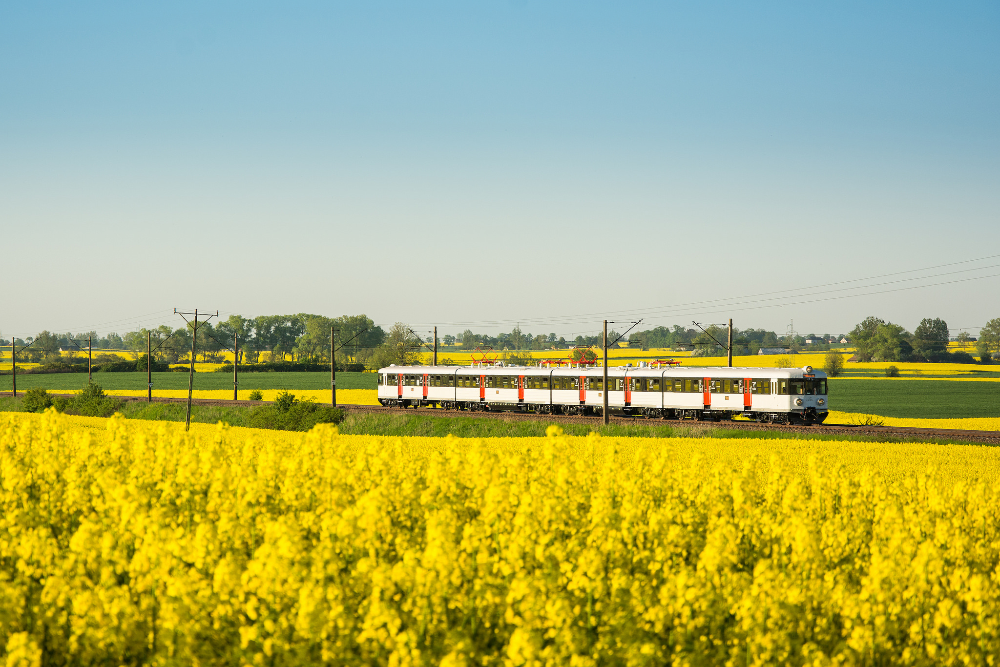 Gręblin